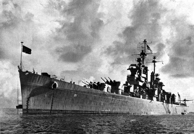 The U.S. Navy light cruiser USS Oklahoma City (CL-91) at anchor.